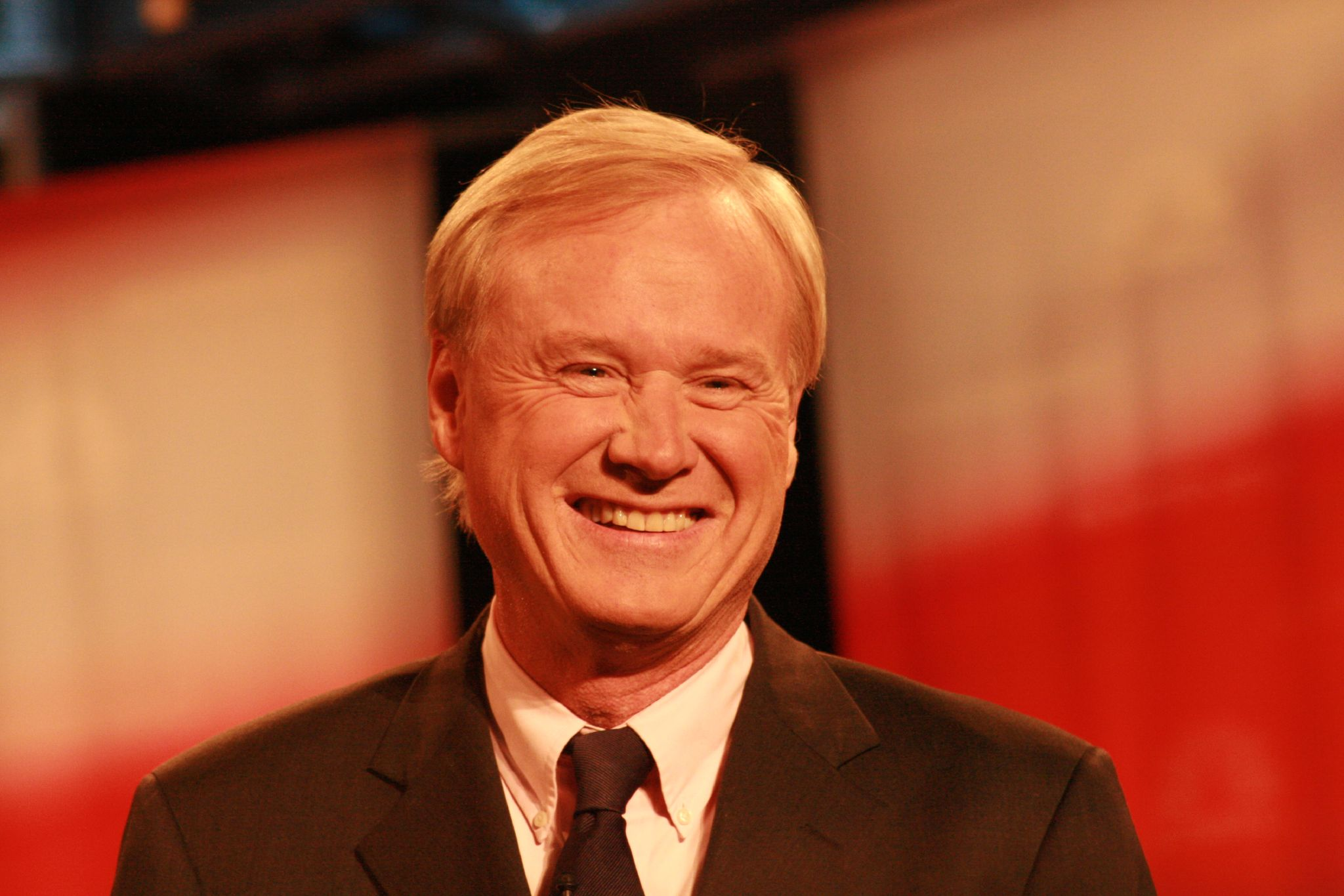 Chris Matthews at the Republican presidential debate in Dearborn, Michigan, 9. October 2007.